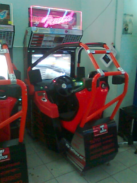 BG4T cabinet (pro version)